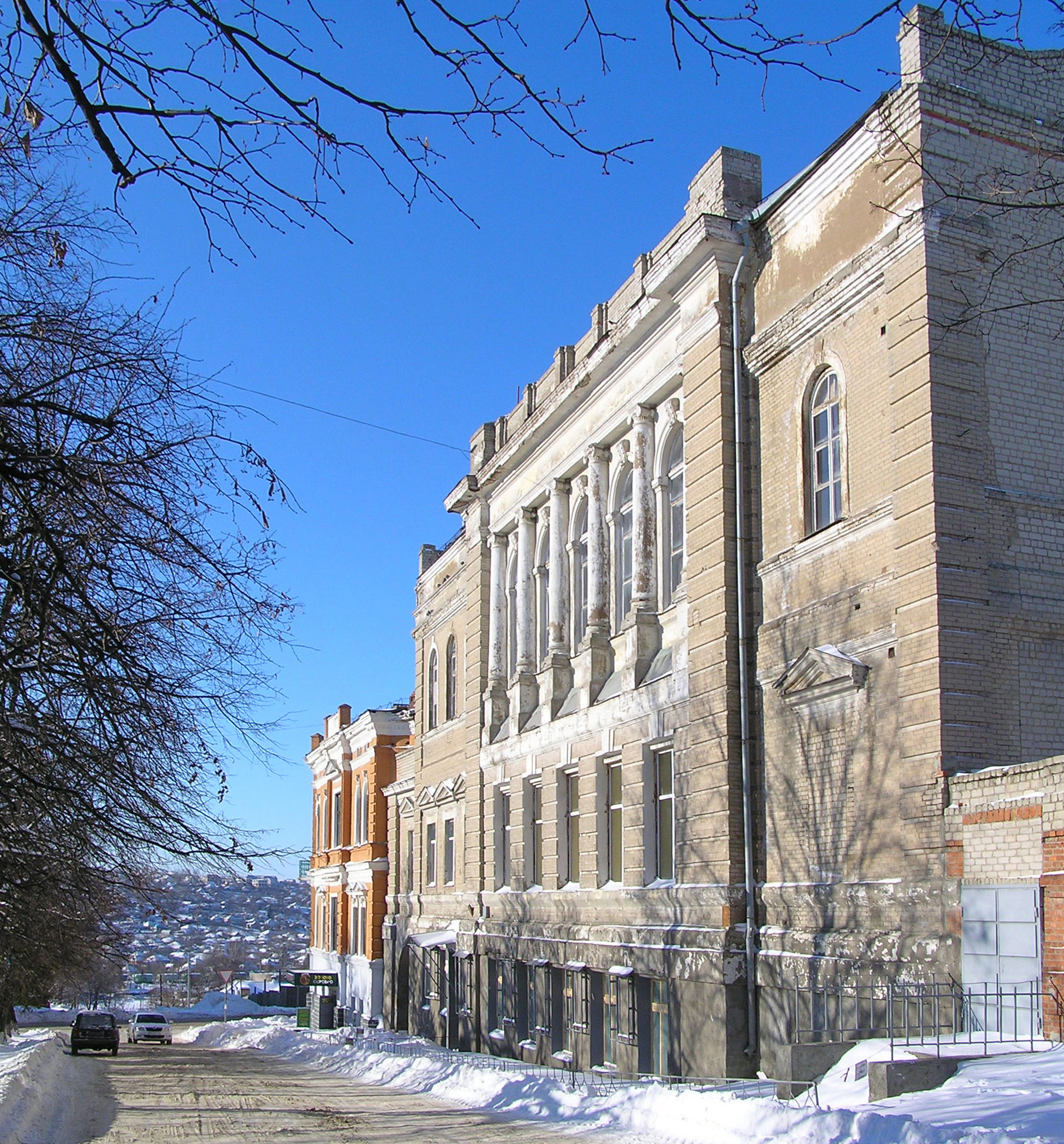 Головний корпус колишнього Духовного училища кінця 19 — початку 20ст. , за радянських часів — друкарня . Пам'ятка архітектури місцевого значення, охор. №530/2. Адреса: вул. 1Травня,2, ,м. Куп'янськ, Харківська обл.